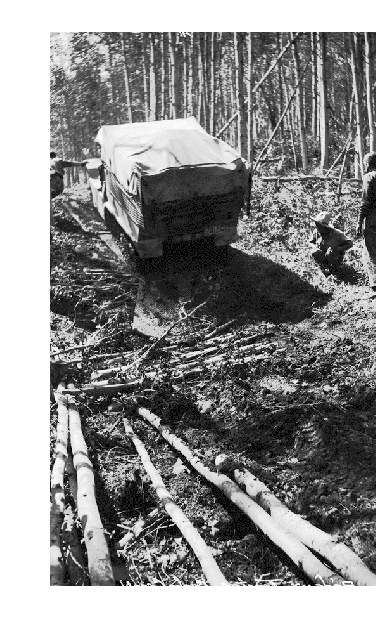 A Bedaux half-track near Cache Creek. The Bedaux Expedition was an attempt in 1934 by eccentric French millionaire, Charles Eugène Bedaux, to cross the Alberta and British Columbia wilderness, while making a movie, testing Citroën half-tracks and generating publicity for himself.